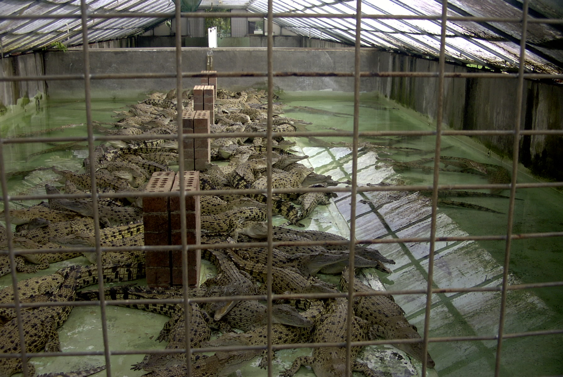 Crocodile farm outside Cairns, Australia.